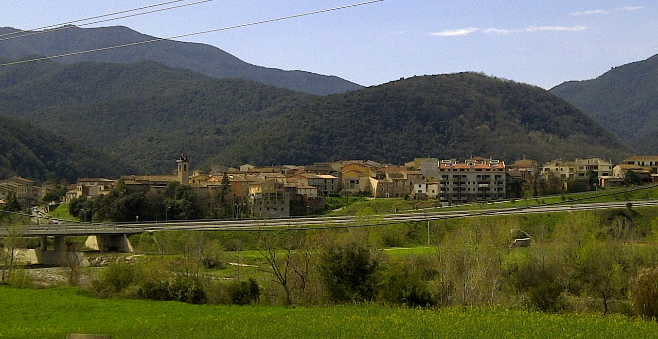 View of Sant Jaume de Llierca from Pla de Tapioles.